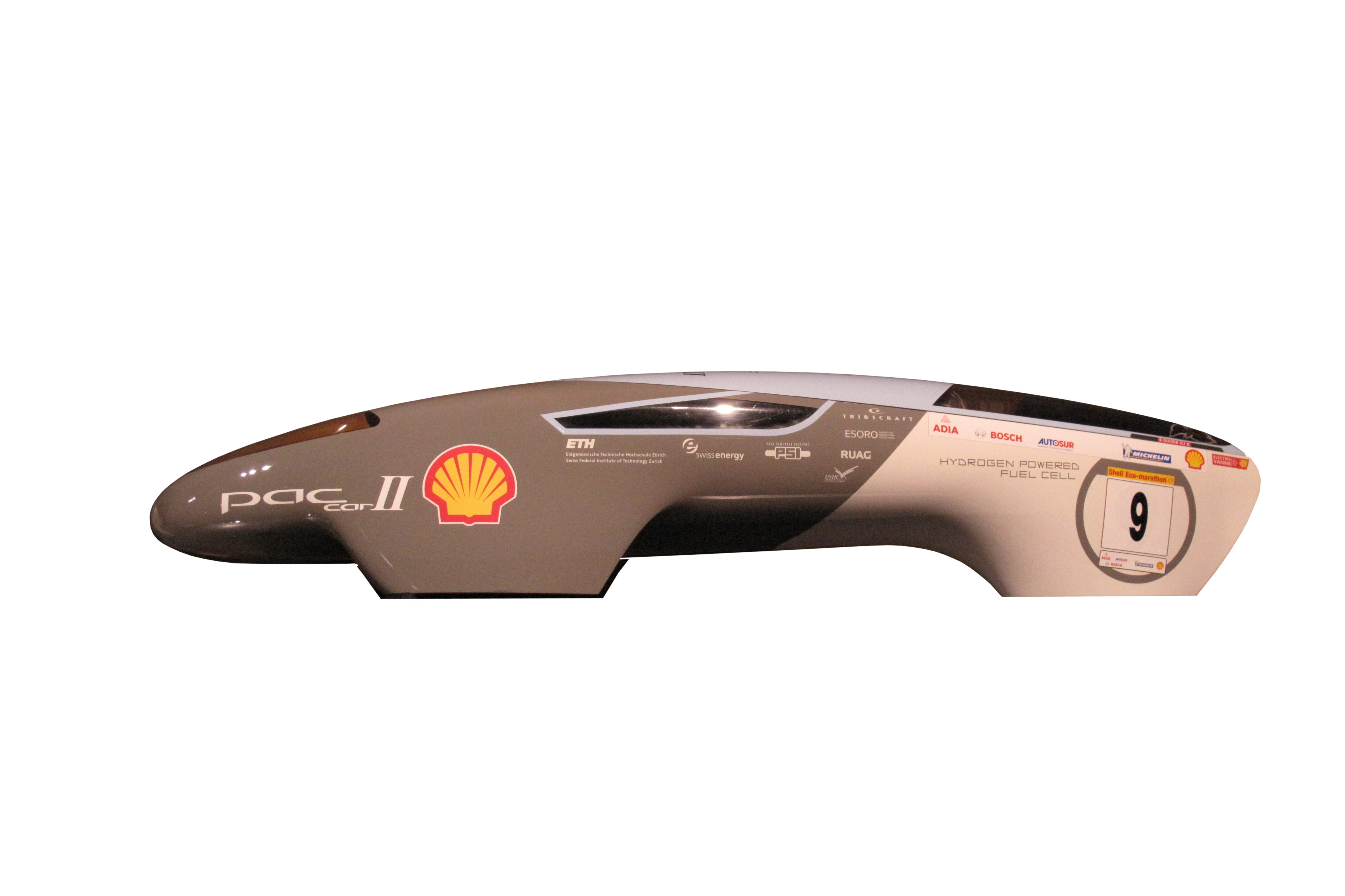 The Pac-car II, on display at Lucerne Transport Museum.